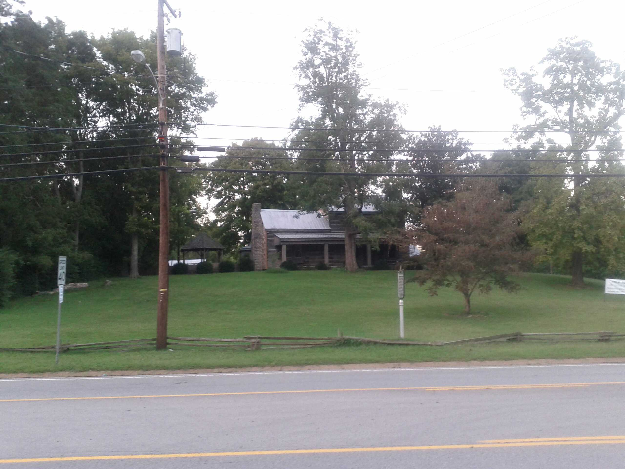 James Buchanan House This photo was uploaded with Wiki Loves Monuments mobile 1.2.1 (Android).